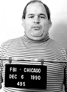 Frank Calabrese, Sr. in a FBI mug shot.